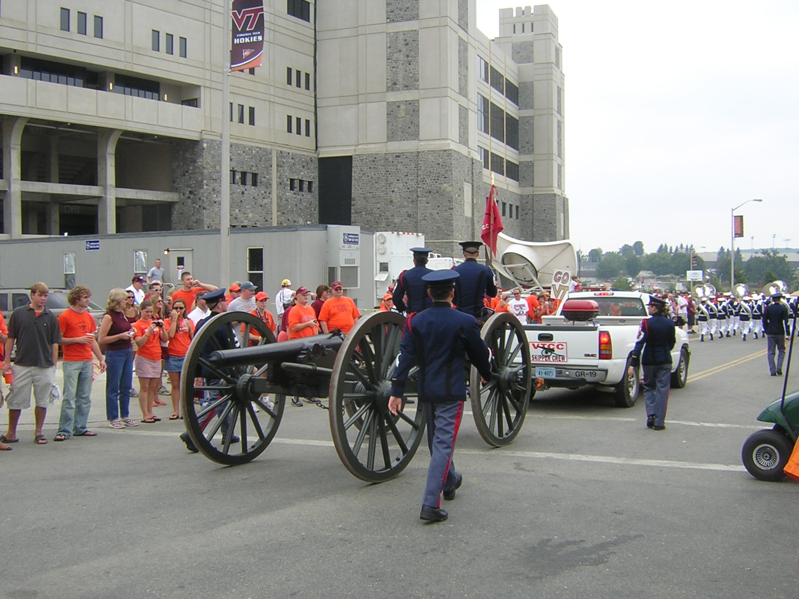 The Virginia Tech Corps of Cadets Skipper Crew brings Skipper (the cannon) to Lane Stadium.